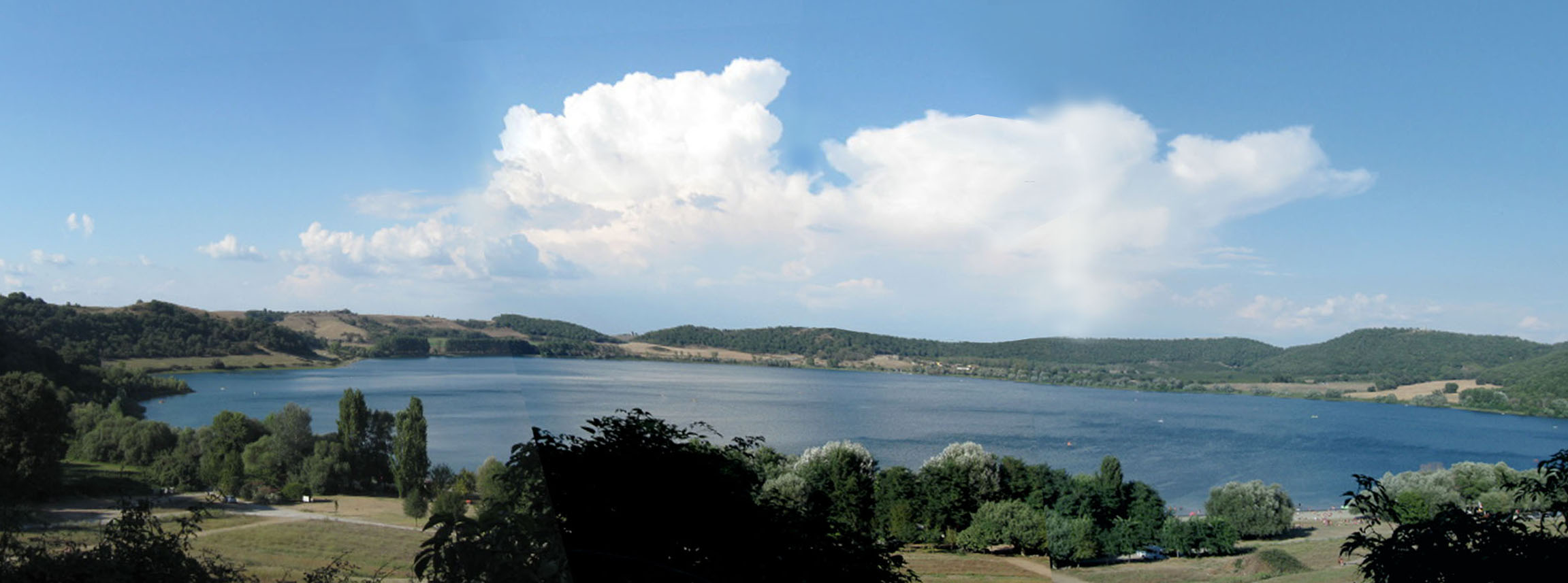 Lake Martignano Province of Rome, Italy